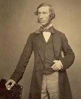 Photo of John Tyndall as a young man. See two other versions of the same photo below.